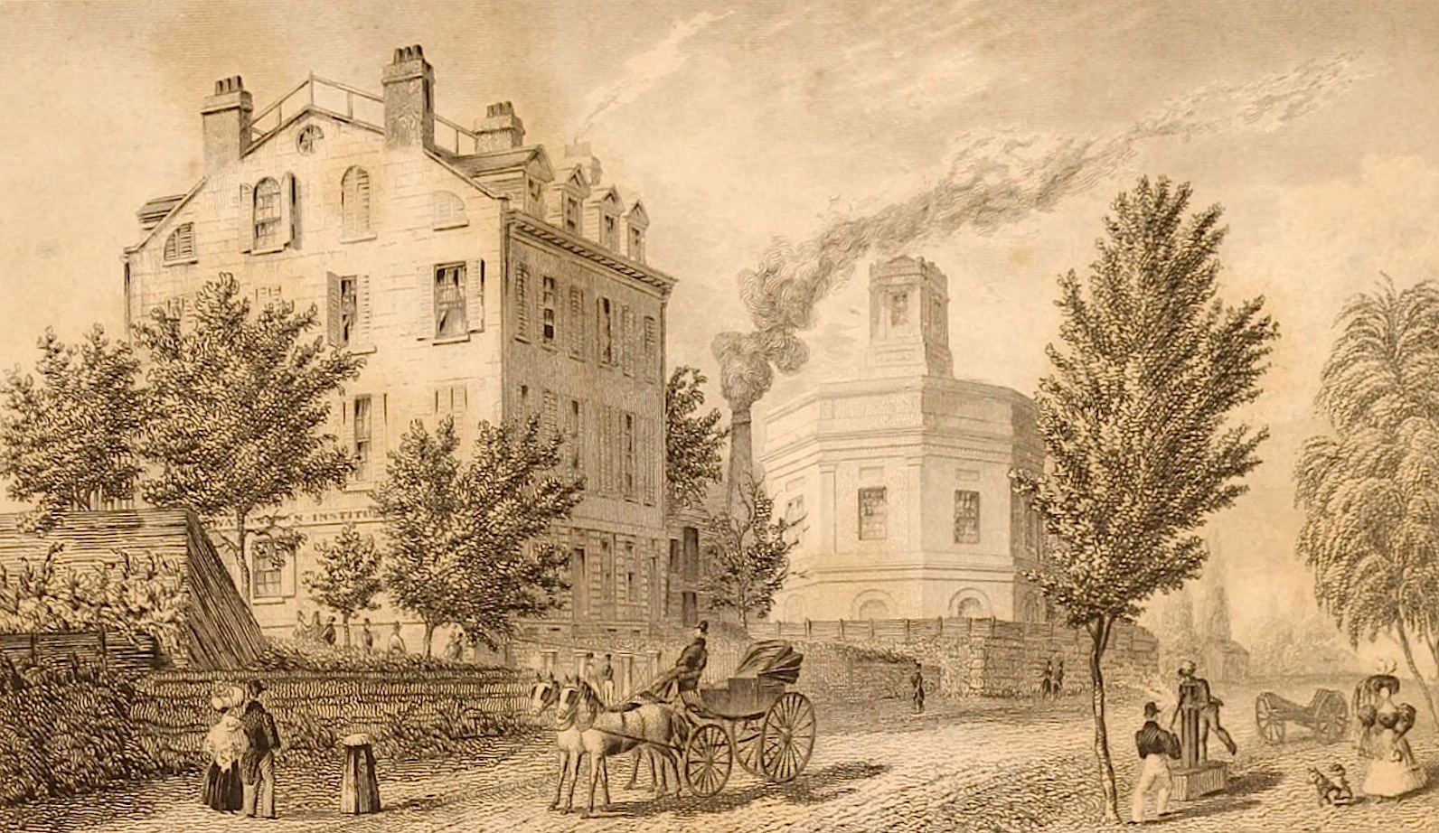 Caption: "WASHINGTON INSTITUTE AND CITY RESERVOIR." No credit line. In 1830 the New York City Fire Department's first reservoir (the octagonal building) was erected near the southeast corner of 13th Street and Fourth Avenue; in 1850 New York Medical College was founded in a new building on the site, at 112 East 13th Street. The Washington Institute on 13th Street was a private school for boys; in the late 1840s the Roman Catholic Sisters of Charity acquired the property and founded St. Vincent's Hospital there. Sources: Bradford Map of New York City (1839) shows location of reservoir. Fay and Dakin, pp. 27-9 Jacobi, Abraham. "The New York Medical College 1782-1906" Annals of Medical History Vol. 1 No. 4 (Winter 1917), p. 370. Online provider: Google Books. Perris, William. Maps of the City of New York Vol. 4 (Perris & Browne, 1853), Plate 52 (St. Vincent Hospital and New York Medical College). Online provider: New York Public Library. "Prospectus: St. Vincent's Hospital, New-York" (advertisement). New-York Daily Tribune 1849-11-16 p. 4 col. 5: "Thirteenth-st. between Third and Fourth avenues, formerly known as the Washington Institute." Online provider: Library of Congress. Sheldon, George W. The Story of the Volunteer Fire Department of the City of New York (New York: Harper & Brothers, 1882), pp. 94-5. Online provider: Google Books.